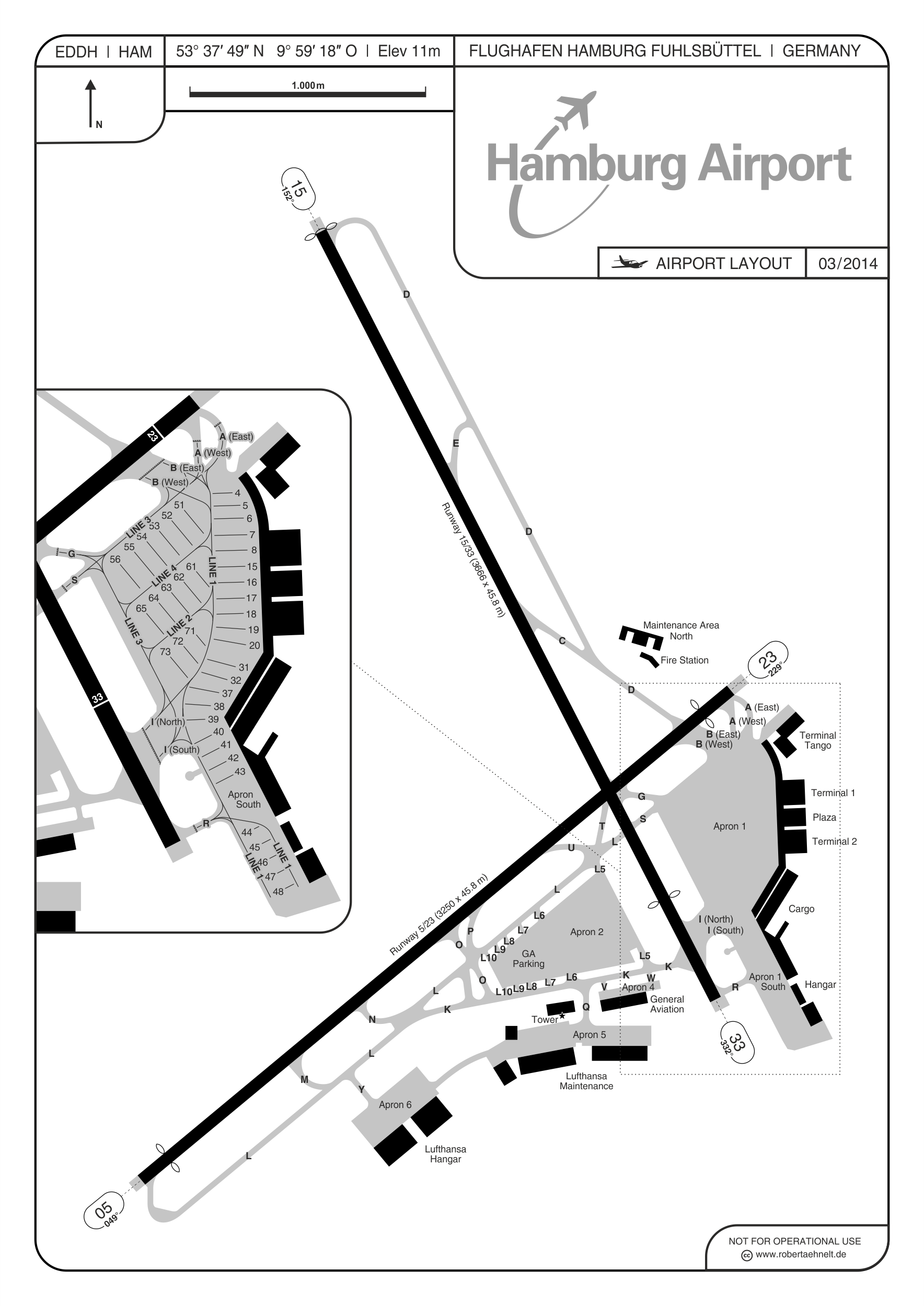 Airport Layout (Ground Chart) - Hamburg Airport (EDDH/HAM)